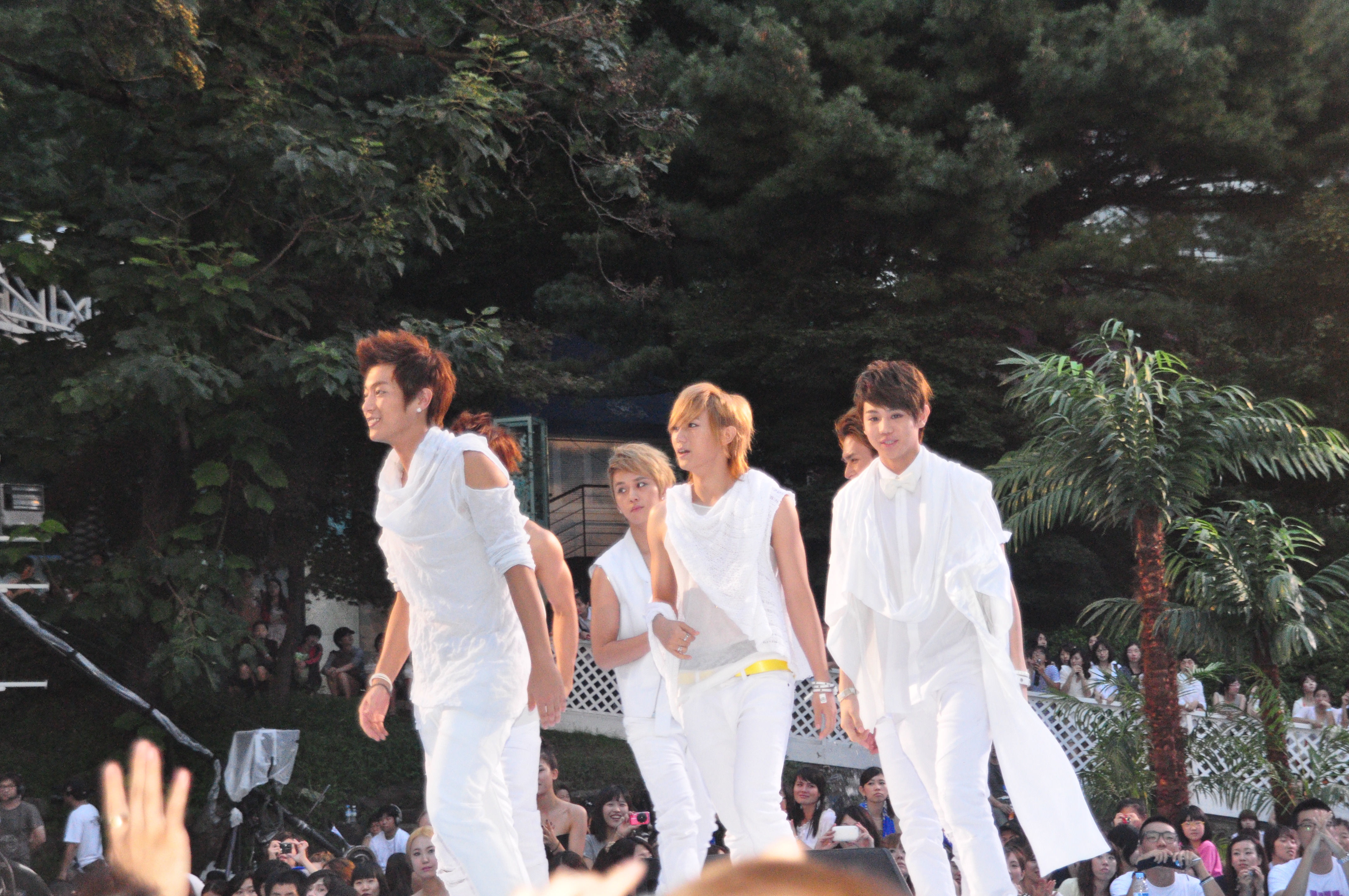 Handsome in white